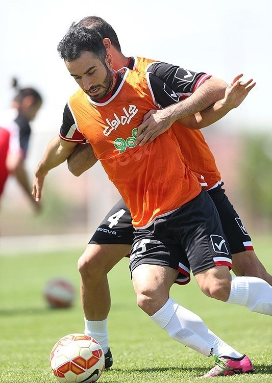 Dariush Shojaeian